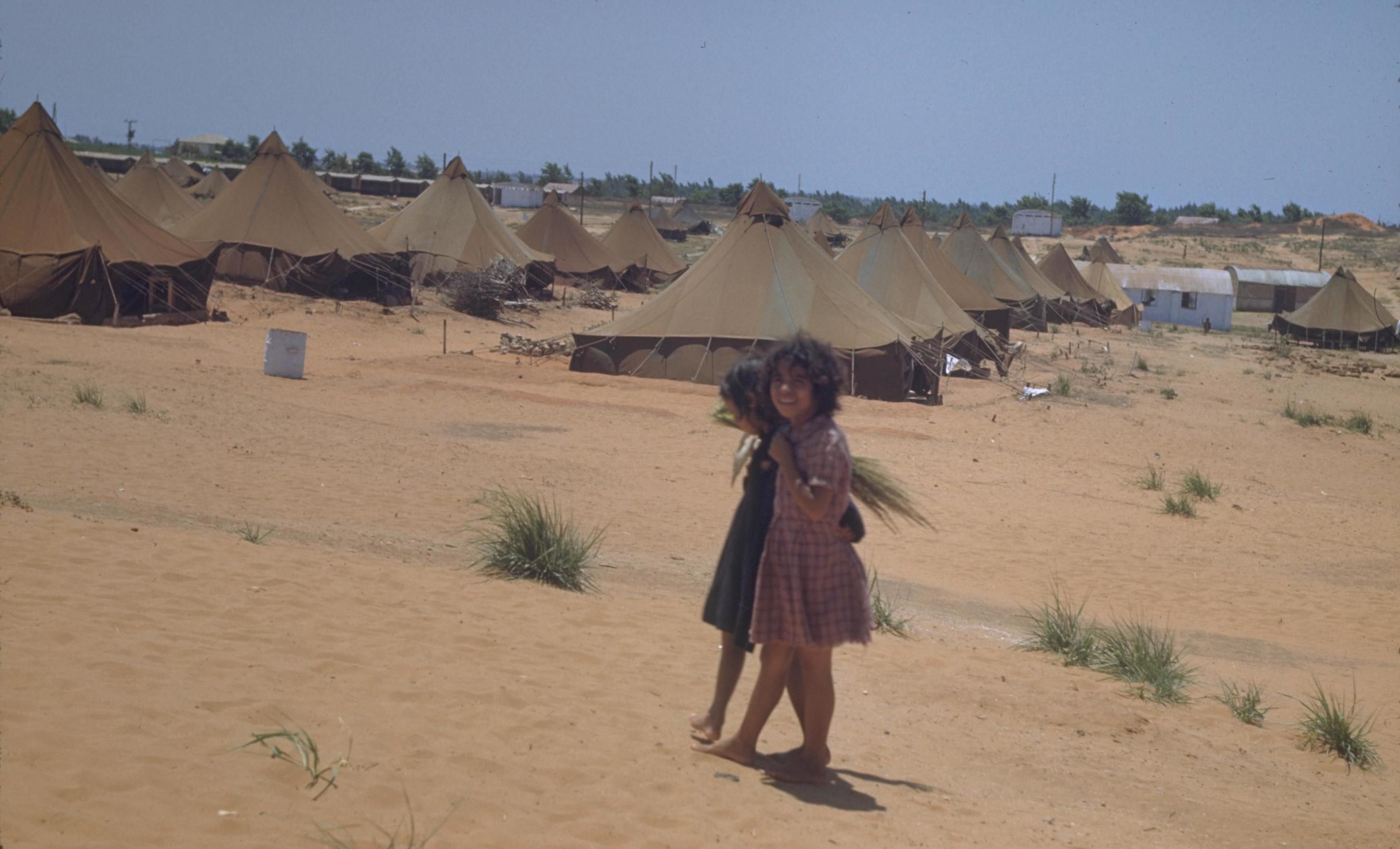 Original Description: YEMMENITES AT "BEIT LID" IMMIGRANT CAMP.